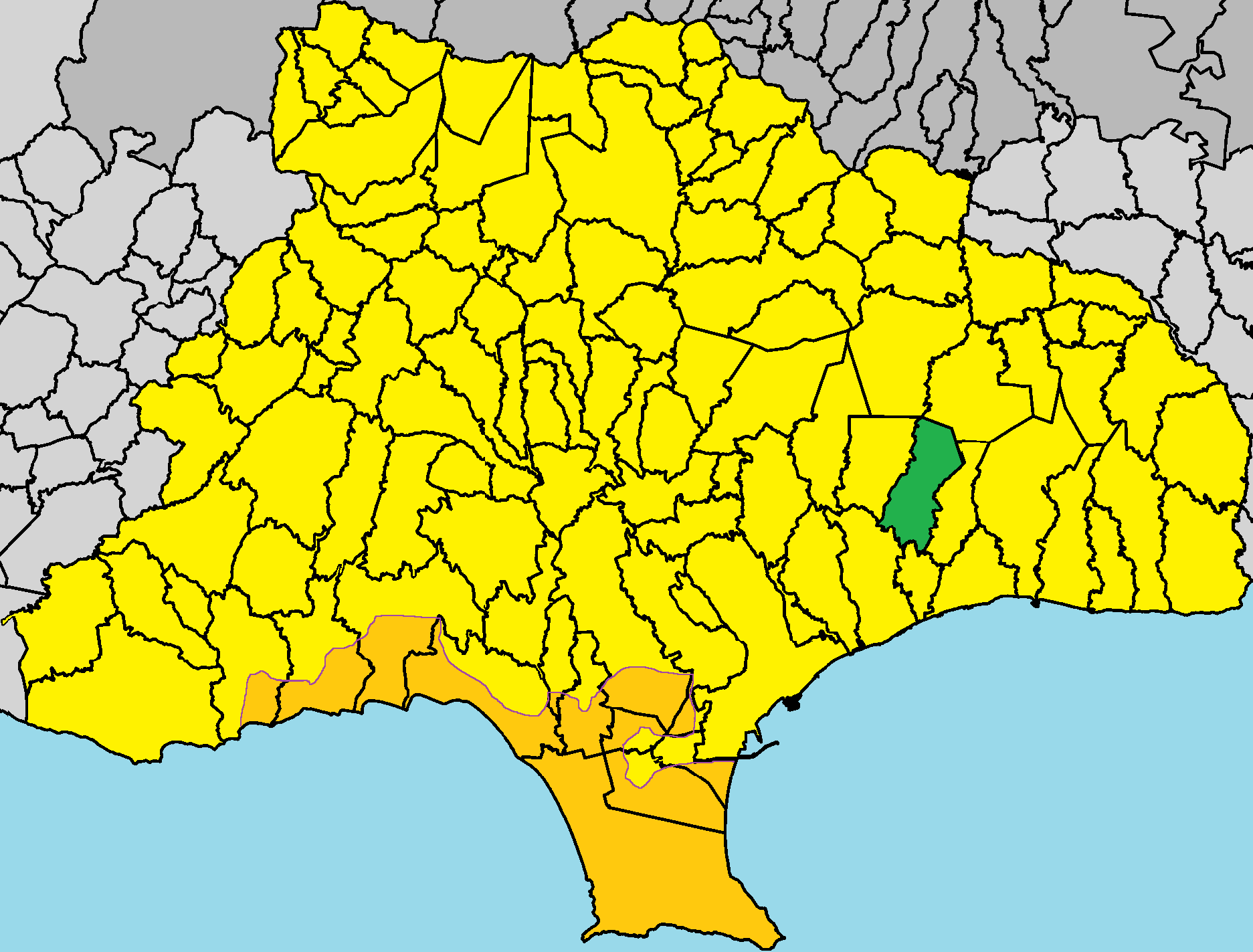 Foinikaria in Limassol District.